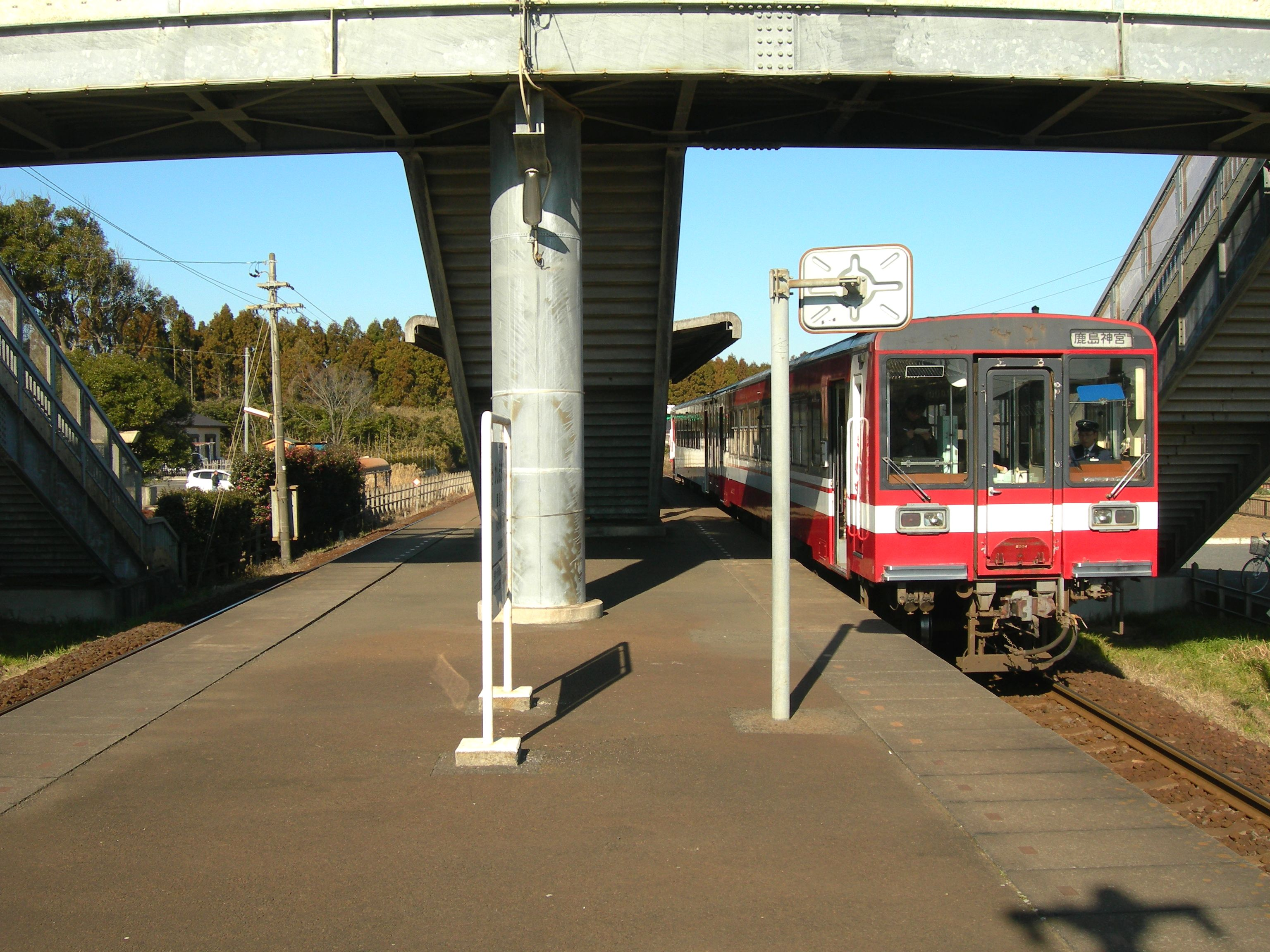 Kashima-Ono Station platform